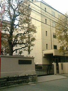 Sophia University Ichigaya Campus (上智大学市ヶ谷キャンパス)